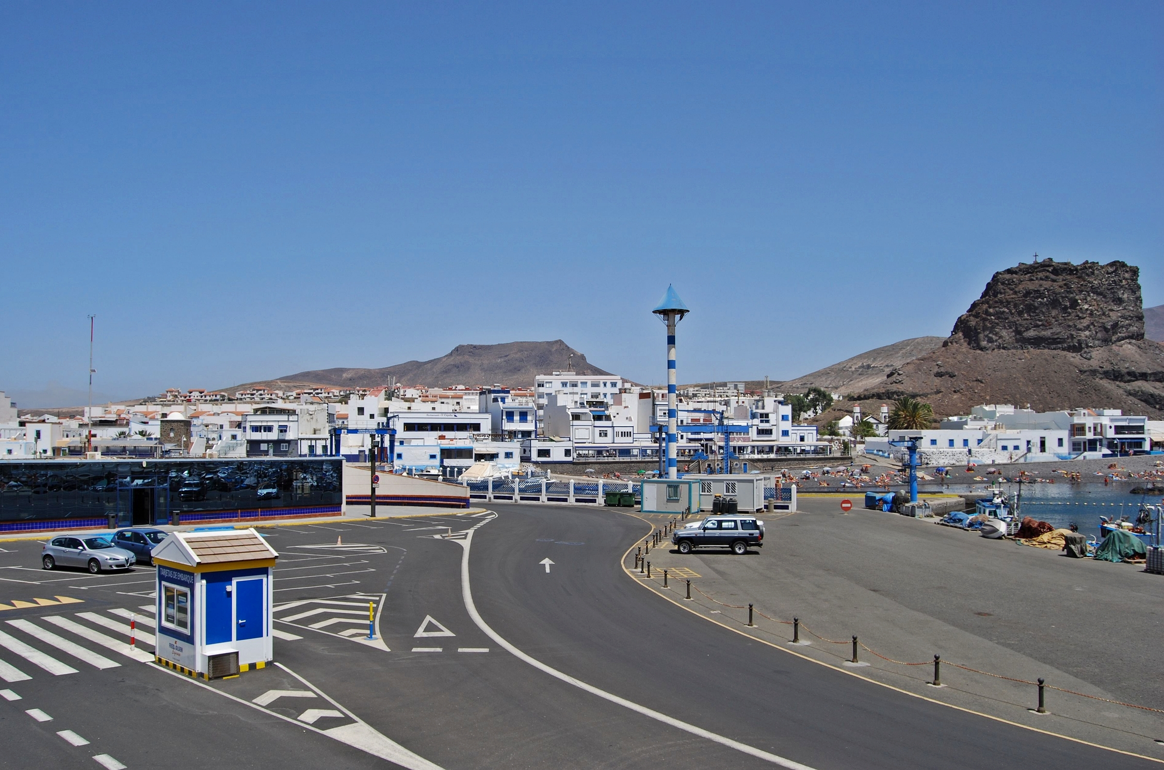 The port Puerto de las Nieves (Agaete, Gran Canaria). In the background: the village with the beach (on the right).